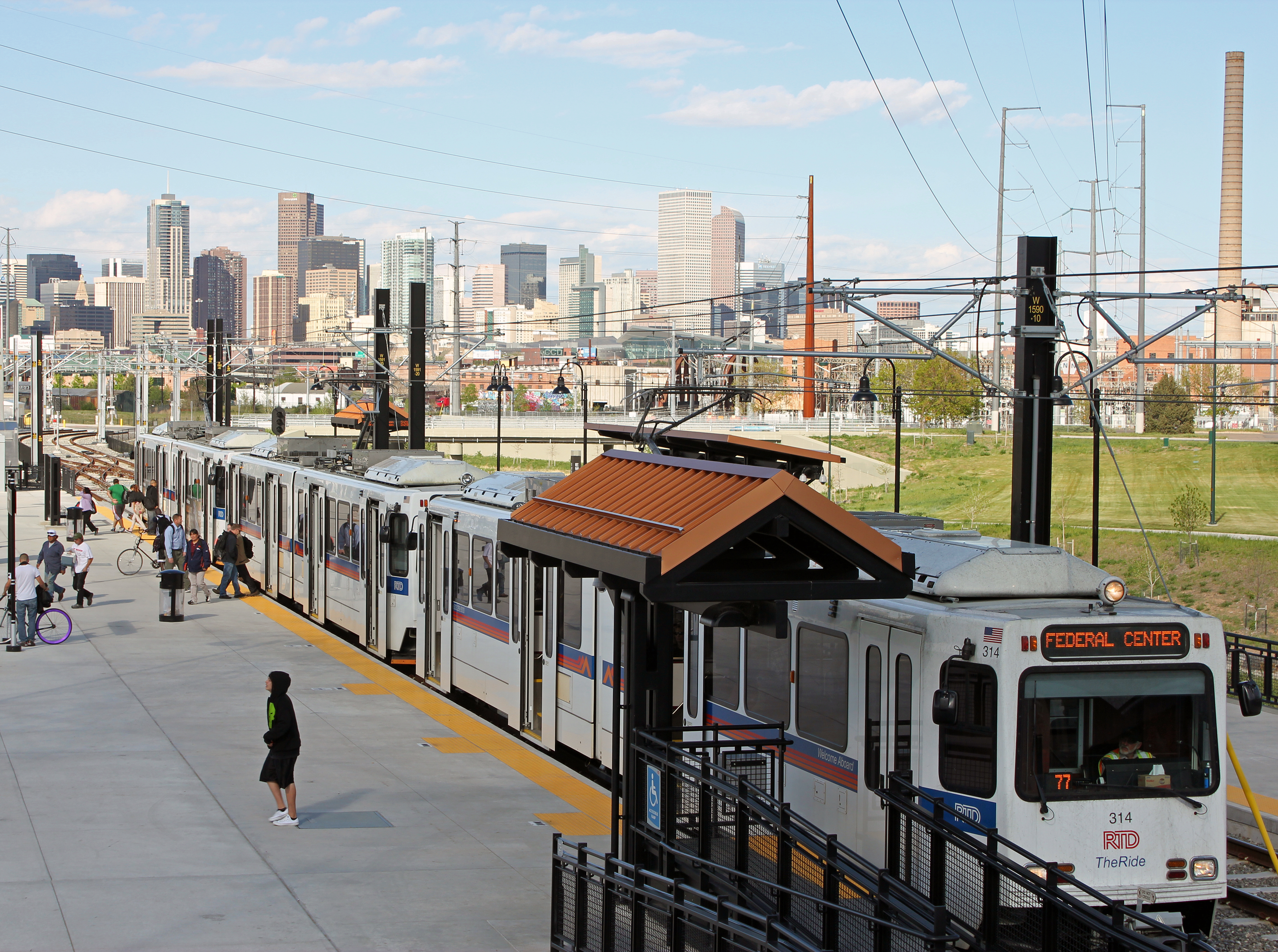 The Decatur/Federal RTD light rail station. The station's address is 1310 North Federal Boulevard, Denver, Colorado.